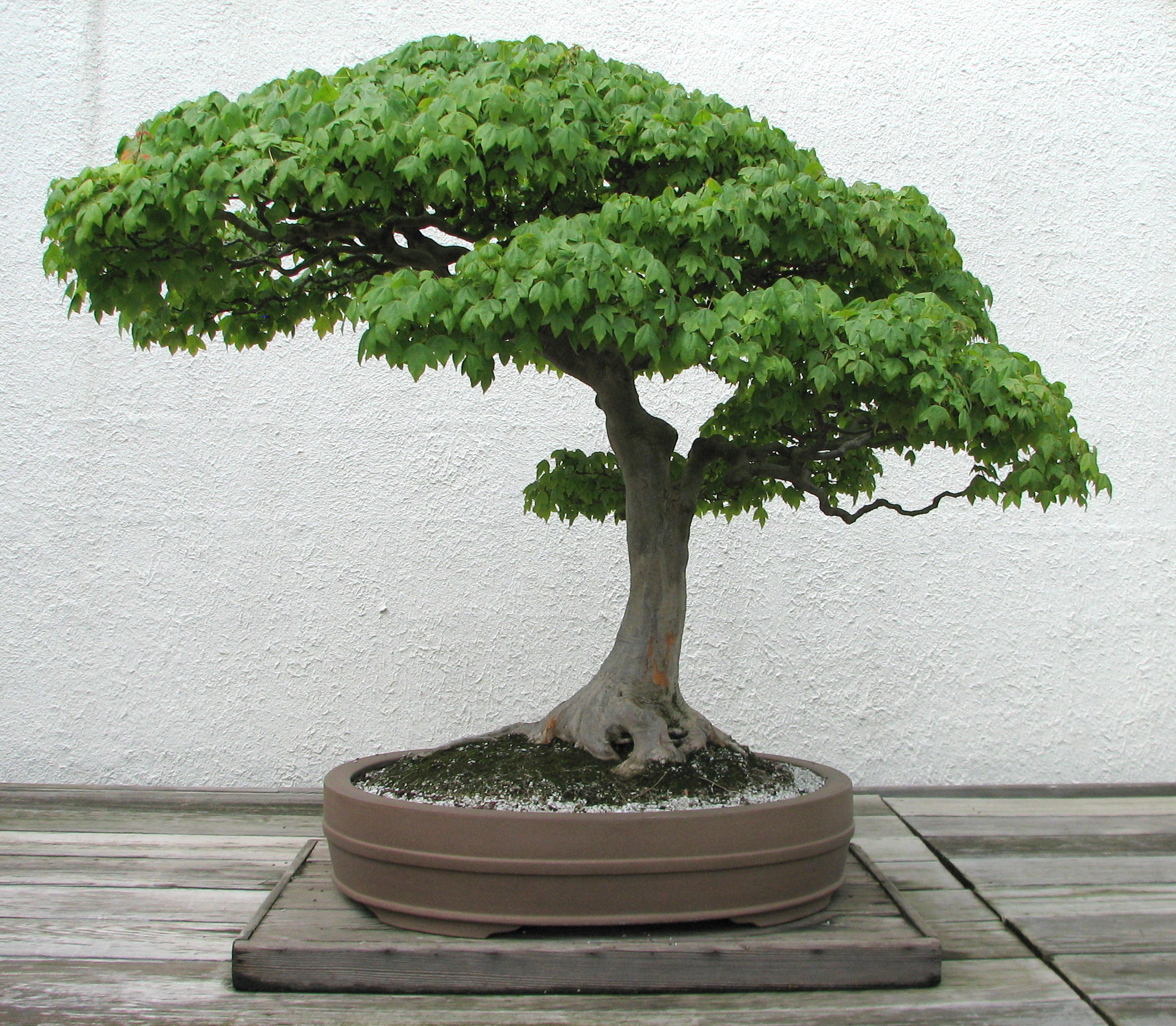 A Trident Maple (Acer buergerianum) bonsai on display at the National Bonsai & Penjing Museum at the United States National Arboretum. According to the tree's display placard, it has been in training since 1895. It was donated by Prince Takamatsu. This is the "back" of the tree.